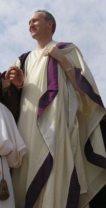 Reconstruction of a Roman senator by the Dutch re-enactmentgroup Pax Romana. Photographed by myself in Rome, April 2010.